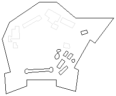 Citadel of Liege in 1816.